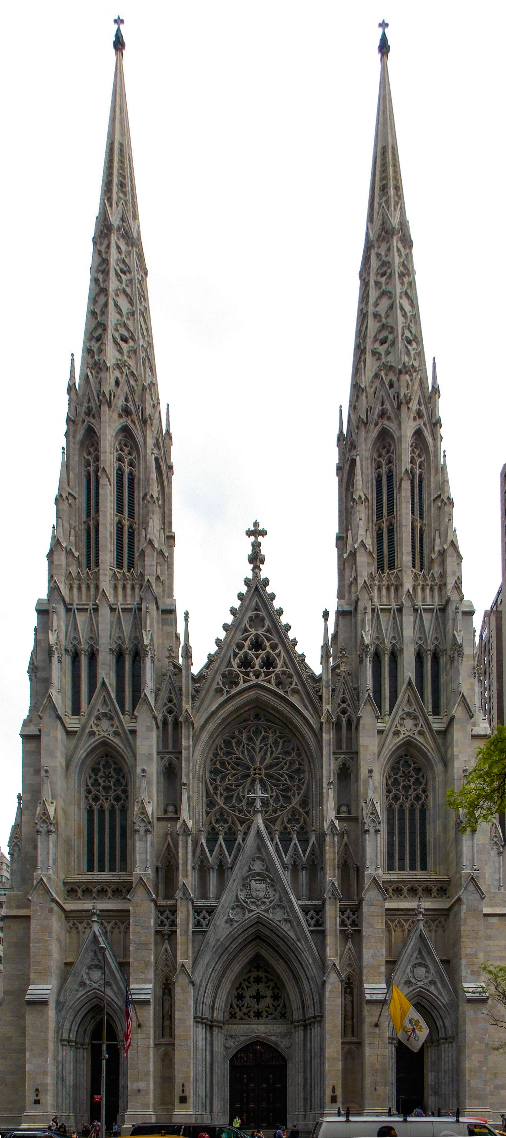 St. Patrick's Cathedral on Fifth Avenue in Manhattan, New York.